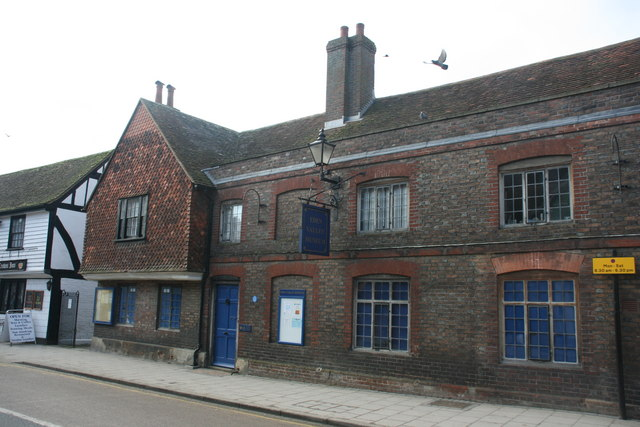 Eden Valley Museum, High St, Edenbridge A community based museum run entirely by volunteers. It is a museum about the history, economy, traditions, culture & natural history of the area.